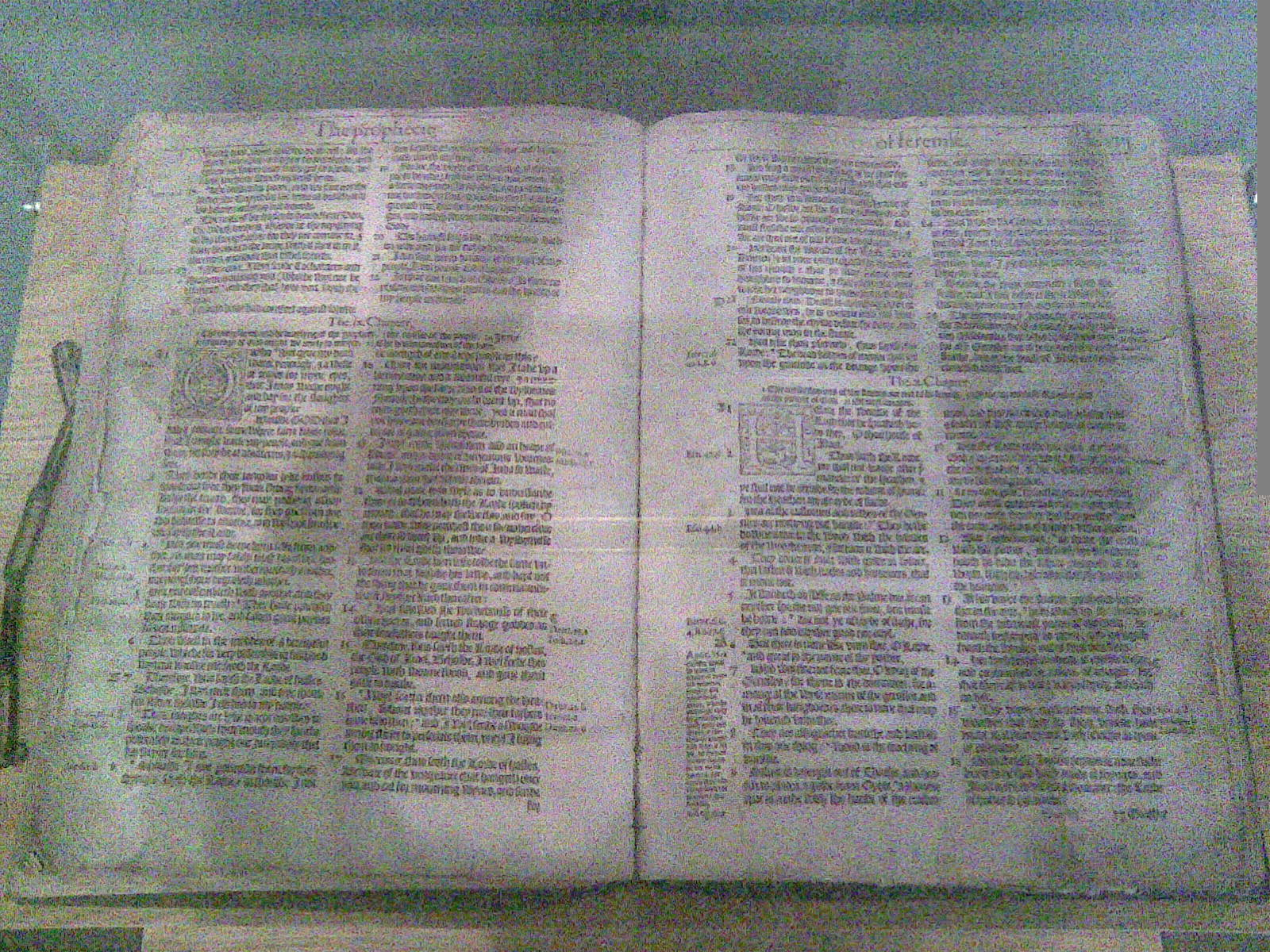 The Treacle Bible opened at the page of the eponymous curiosity. St Mary’s Church, Banbury.